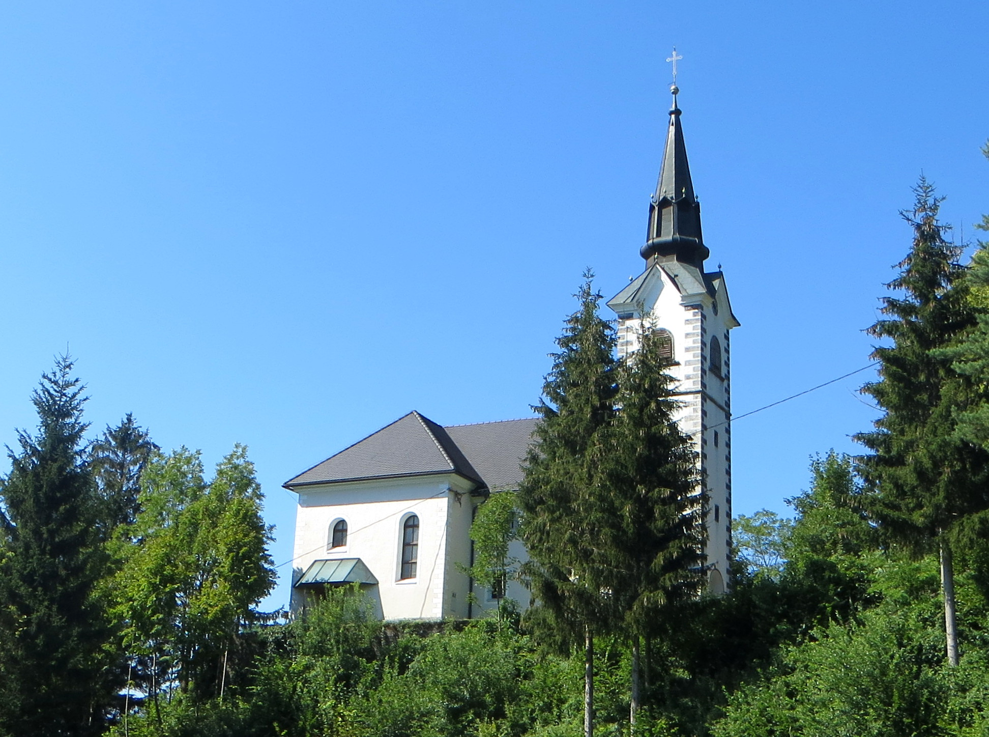 Saint Giles's Church in Javorje, Municipality of Gorenja Vas–Poljane, Slovenia